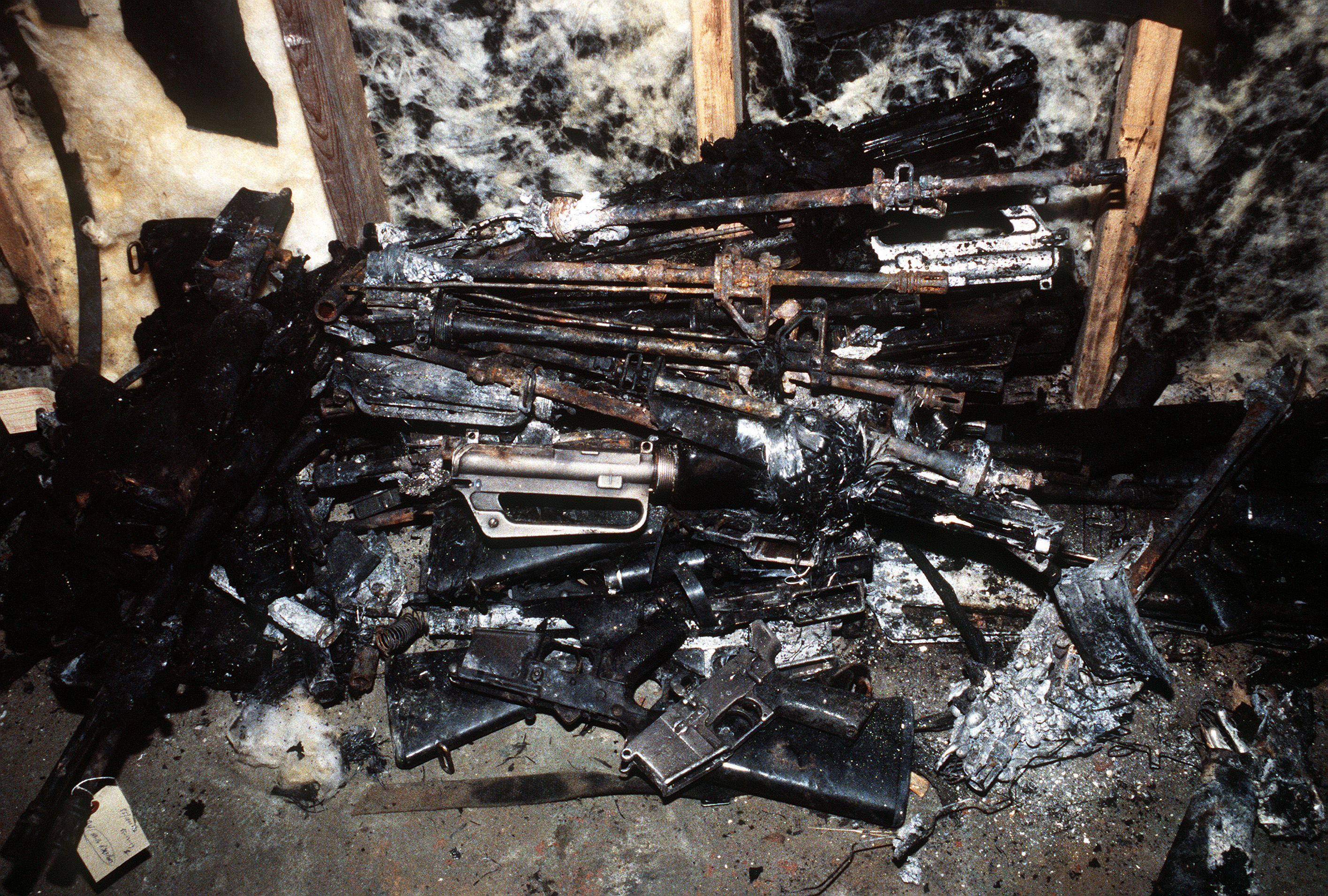 Charred weapons recovered from the wreckage of an Arrow Air DC-8 commercial aircraft are stored in a Gander Airport hangar for analysis by members of the Canadian Air Safety Board. The aircraft crashed at the airport with no survivors on December 12, 1985, while carrying 248 members of the 3rd Bn., 502nd Inf., 101st Airborne Div. They were returning to the United States after participating in peacekeeping duty with the Multi-national Force and Observers in the Sinai Desert.